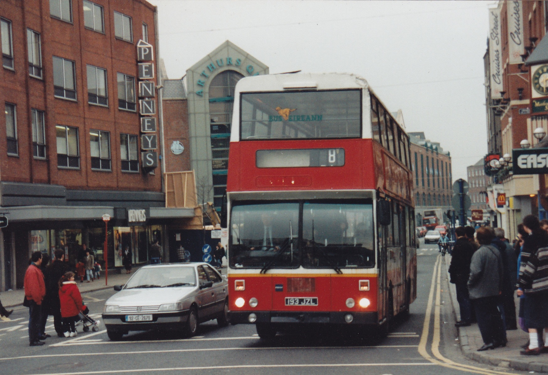 KD193 Limerick City 1995